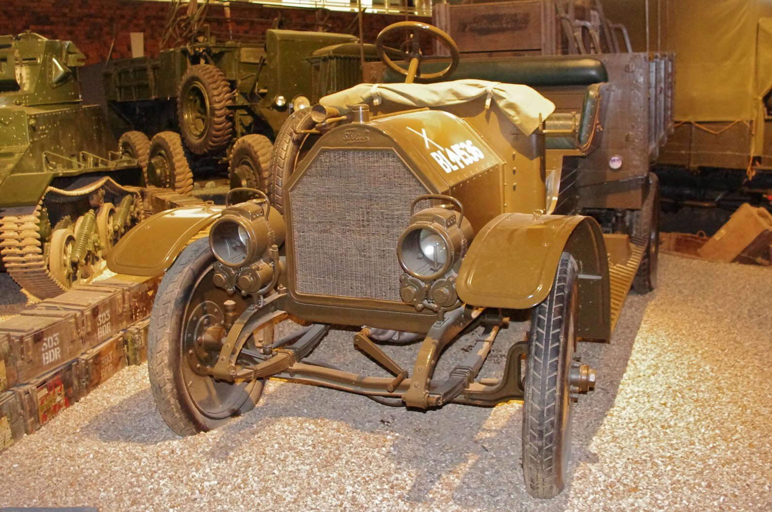 Imperial War Museum, Duxford